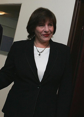 based on File:Marc Grossman and Ilinka Mitreva.jpg